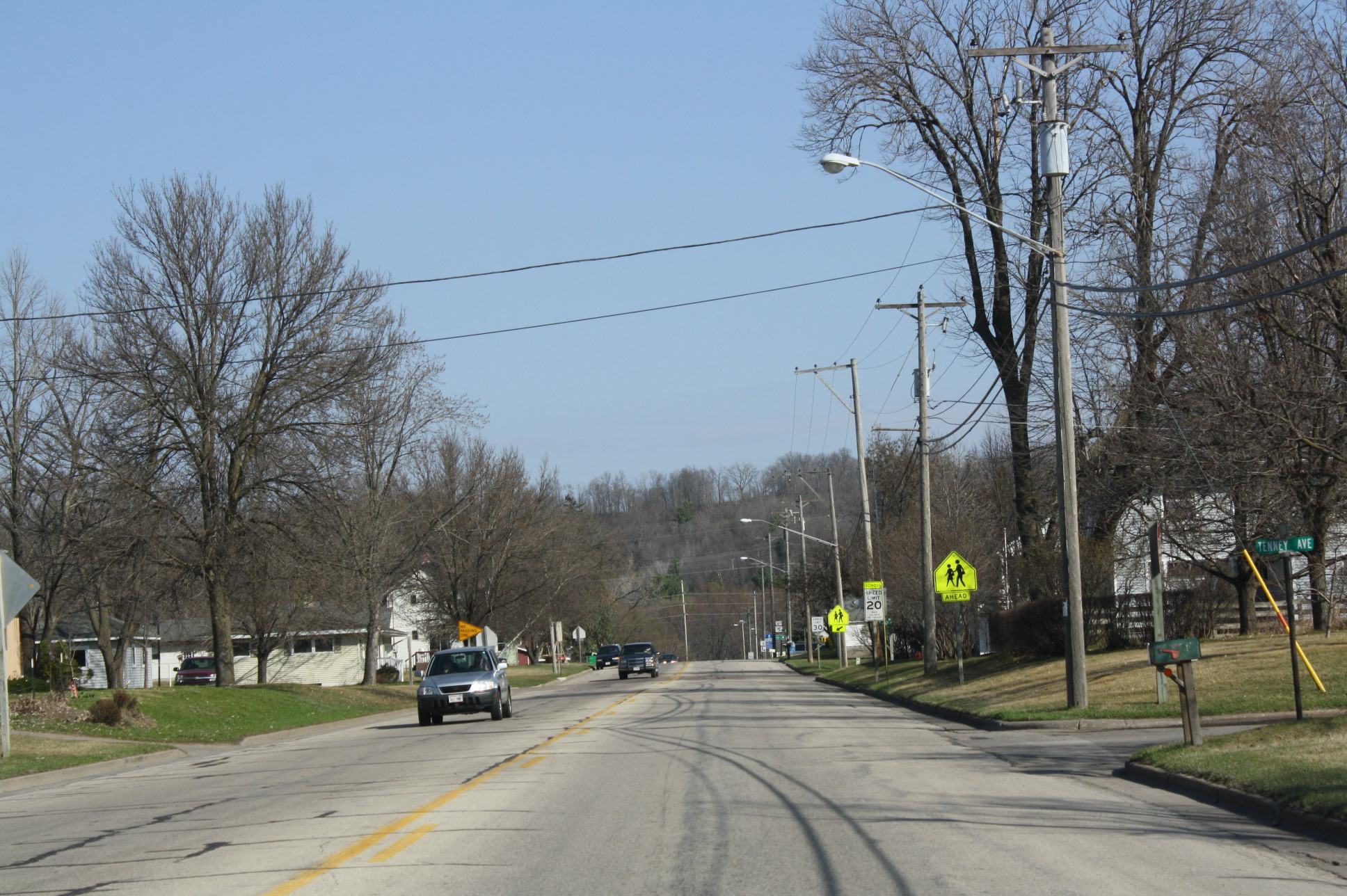 Looking west in Blair, Wisconsin along Wisconsin Highway 95.